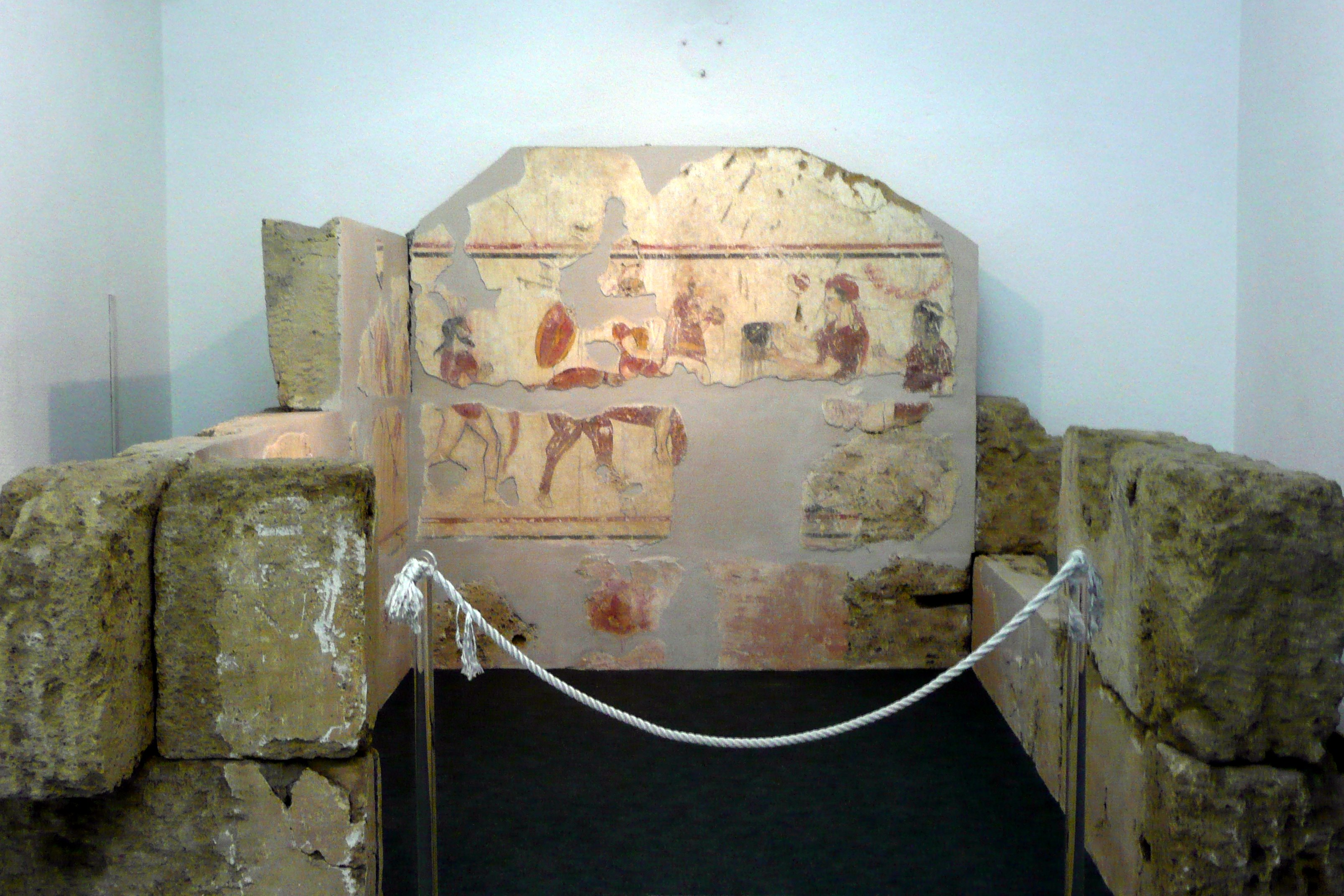 Tomb walls, Paestum